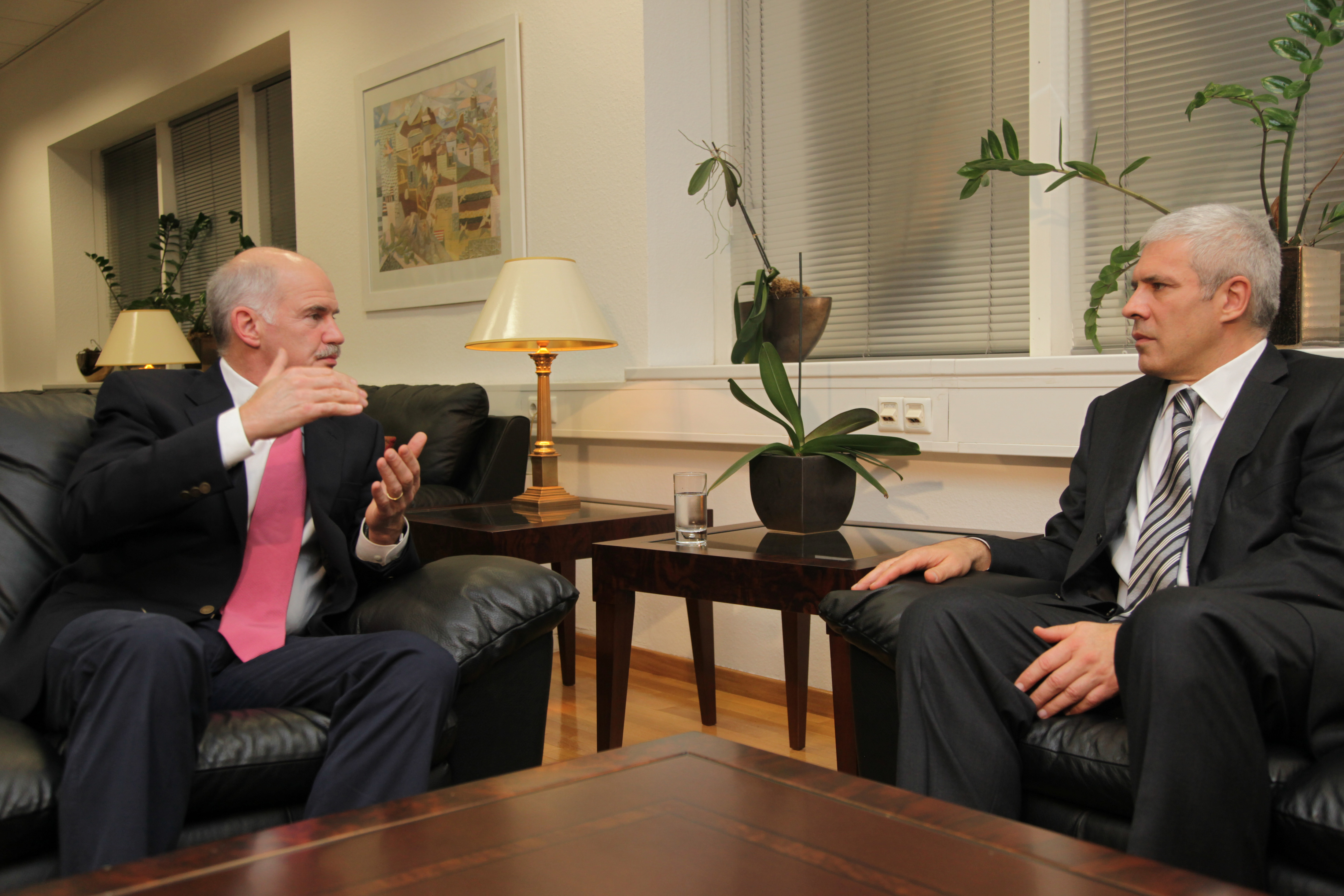 Papandreou-Tadic, Athens 2009